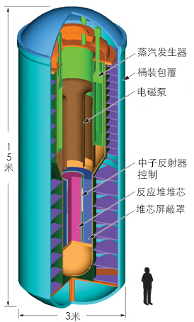 Molten salt reactor schematic courtesy of LLNL, the S&TR is an LLNL publication, making this a government work.